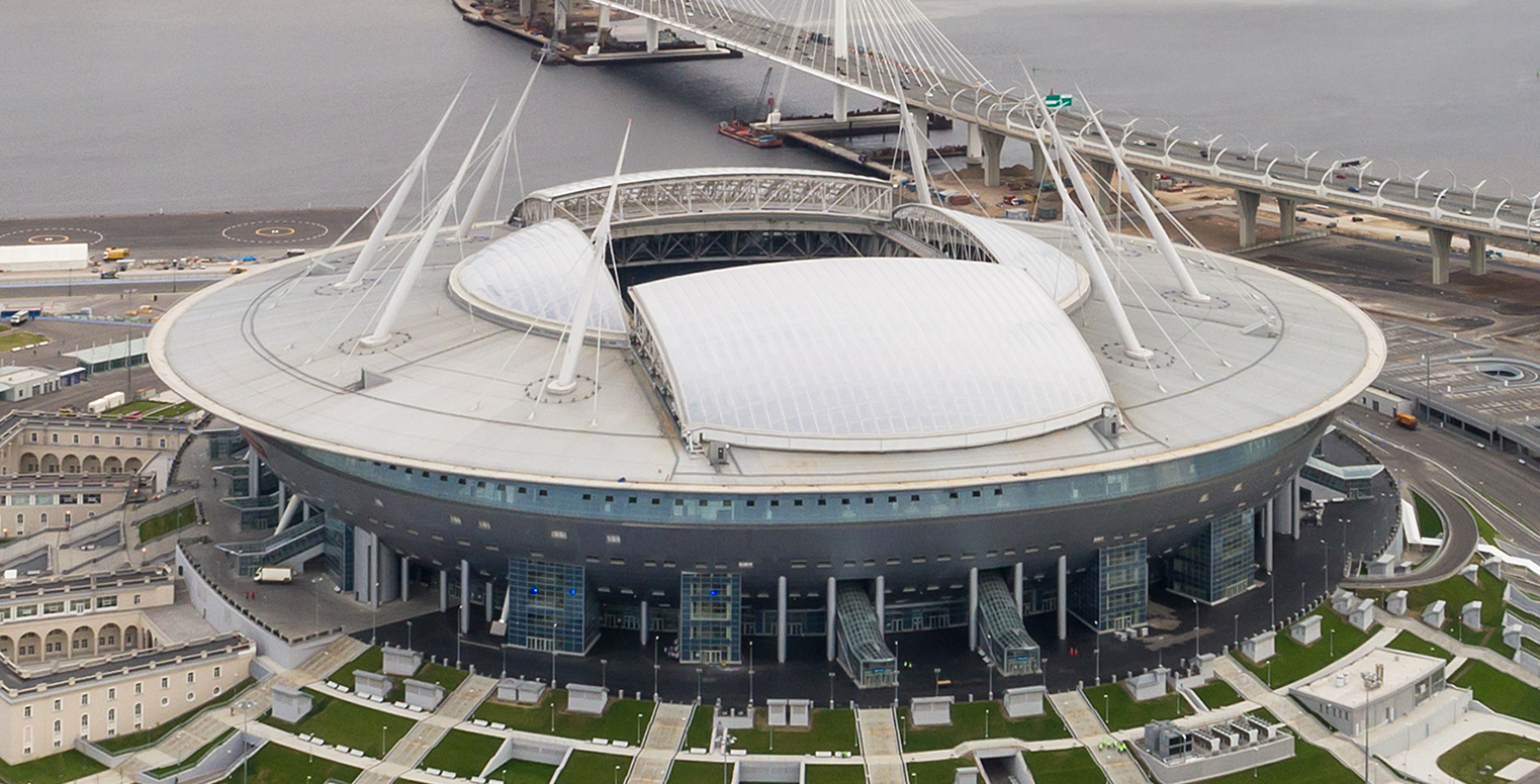 Aerial photo of Krestovsky Stadium in Saint Petersburg (Russia).